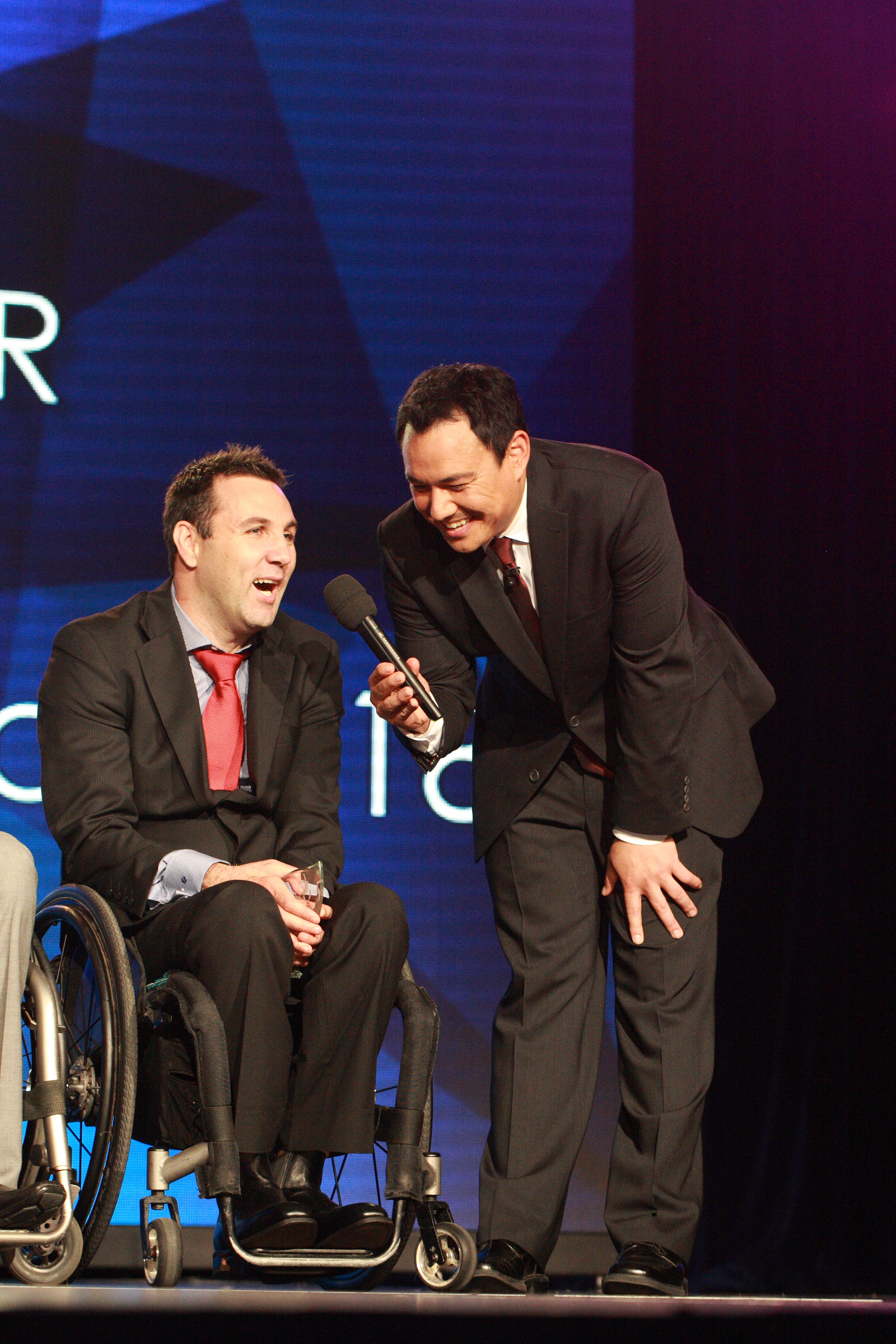 Australian Paralympian of the Year 2012 ceremony at the Hordern Pavilion, Sydney, Australia.